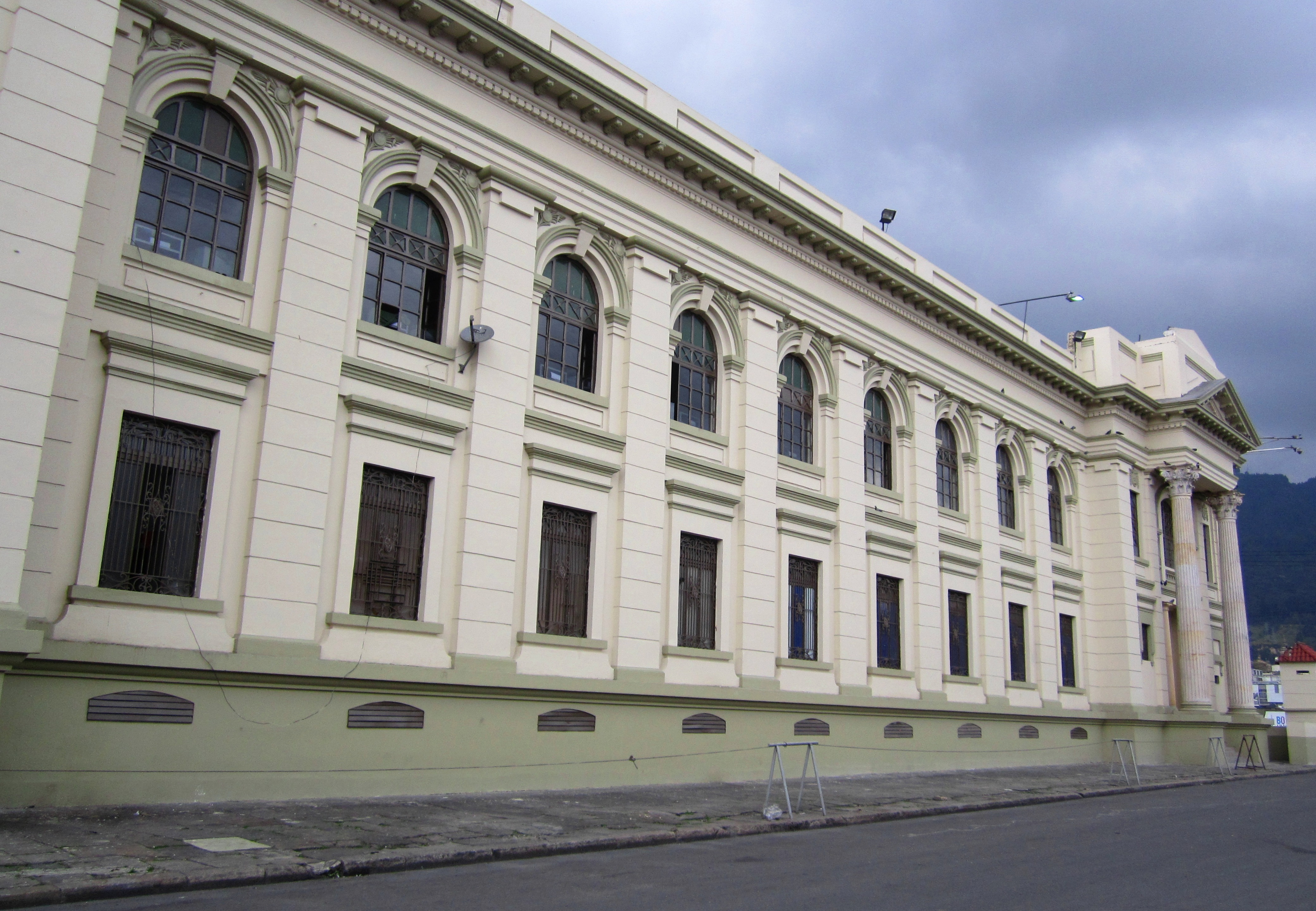 Bogotá